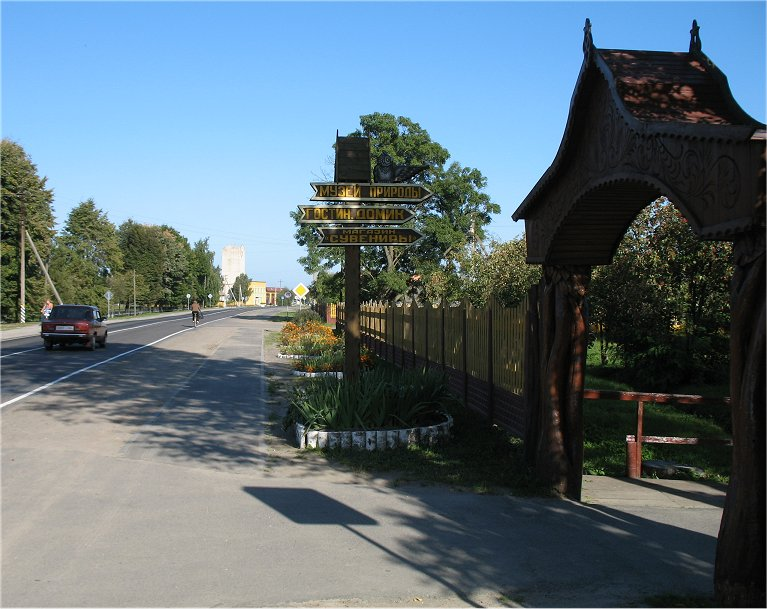 Road view and entrance to Training center / ecological museum on Pripyatsky national park, loated in Turov, Gomel province, Belarus.